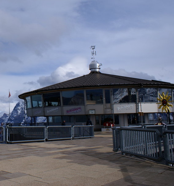 Piz Gloria, Restaurant on top of the Schilthorn in Switzerland - with Eiger in the background